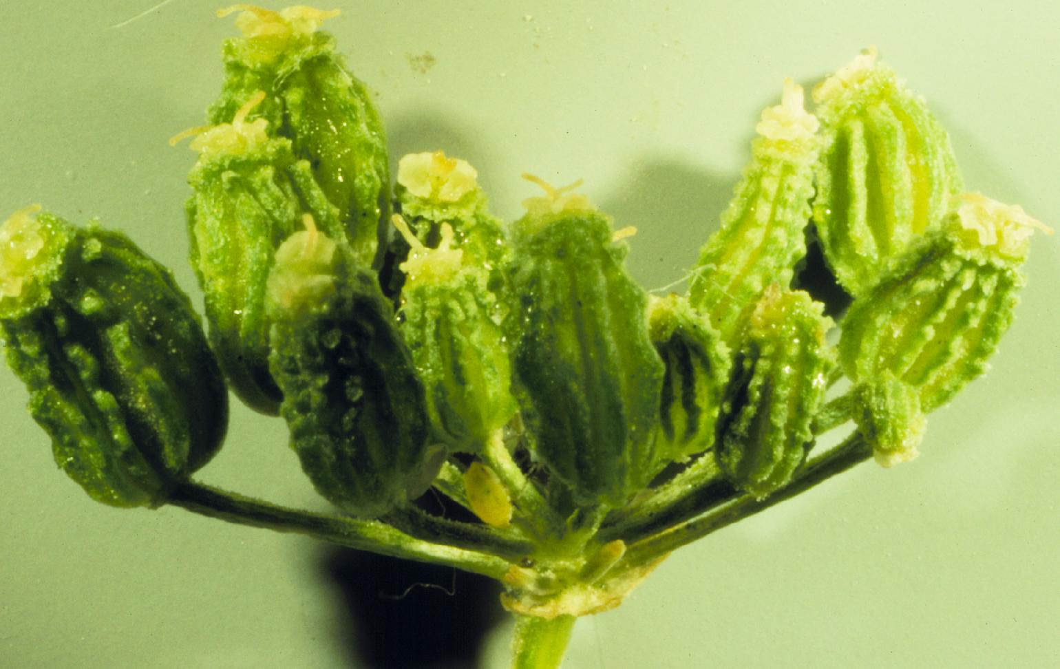 The stylopodium is well developed and the fruits are not compressed and strongly ribbed.